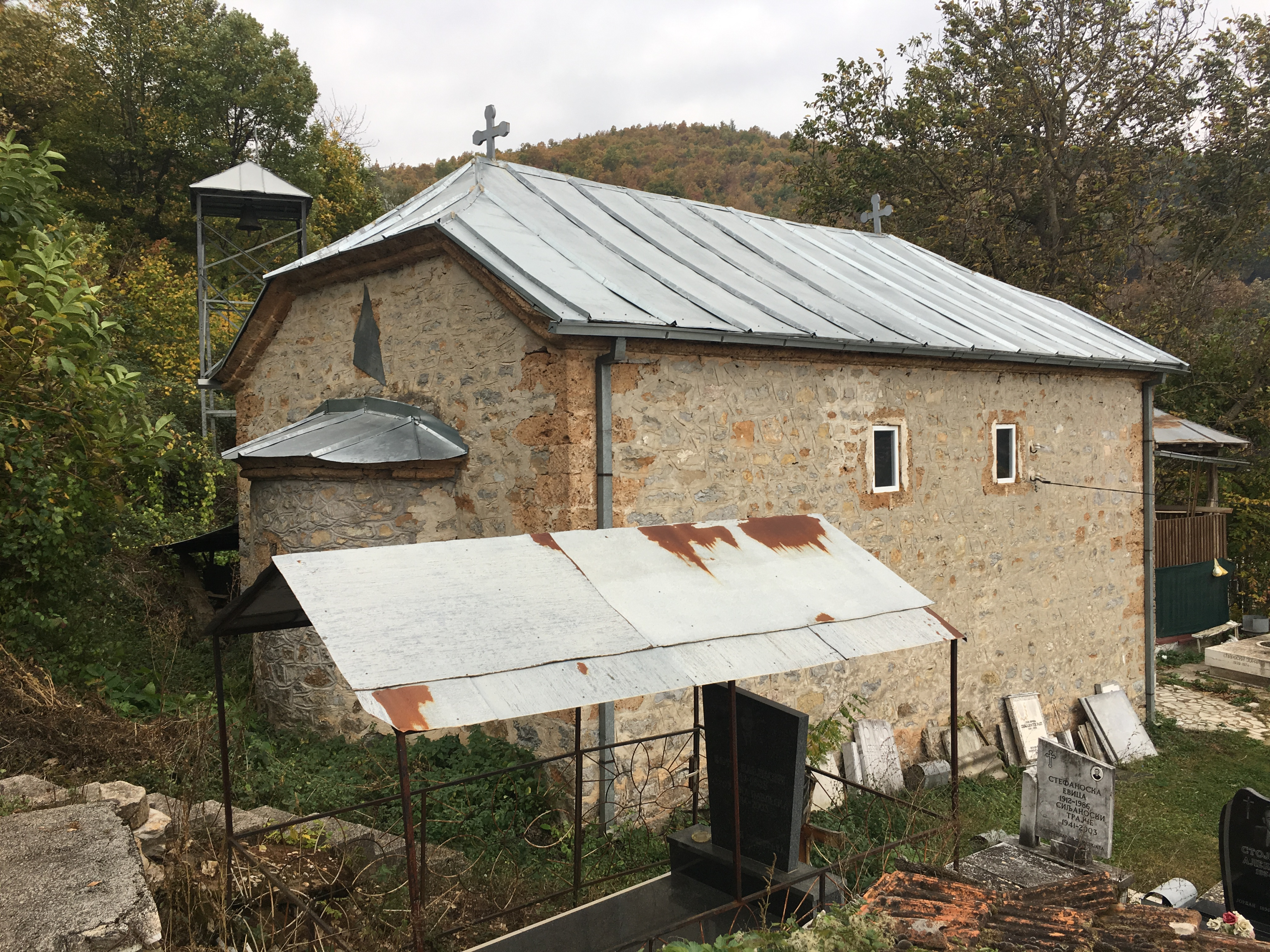 Wikiexpedition to Kopačka